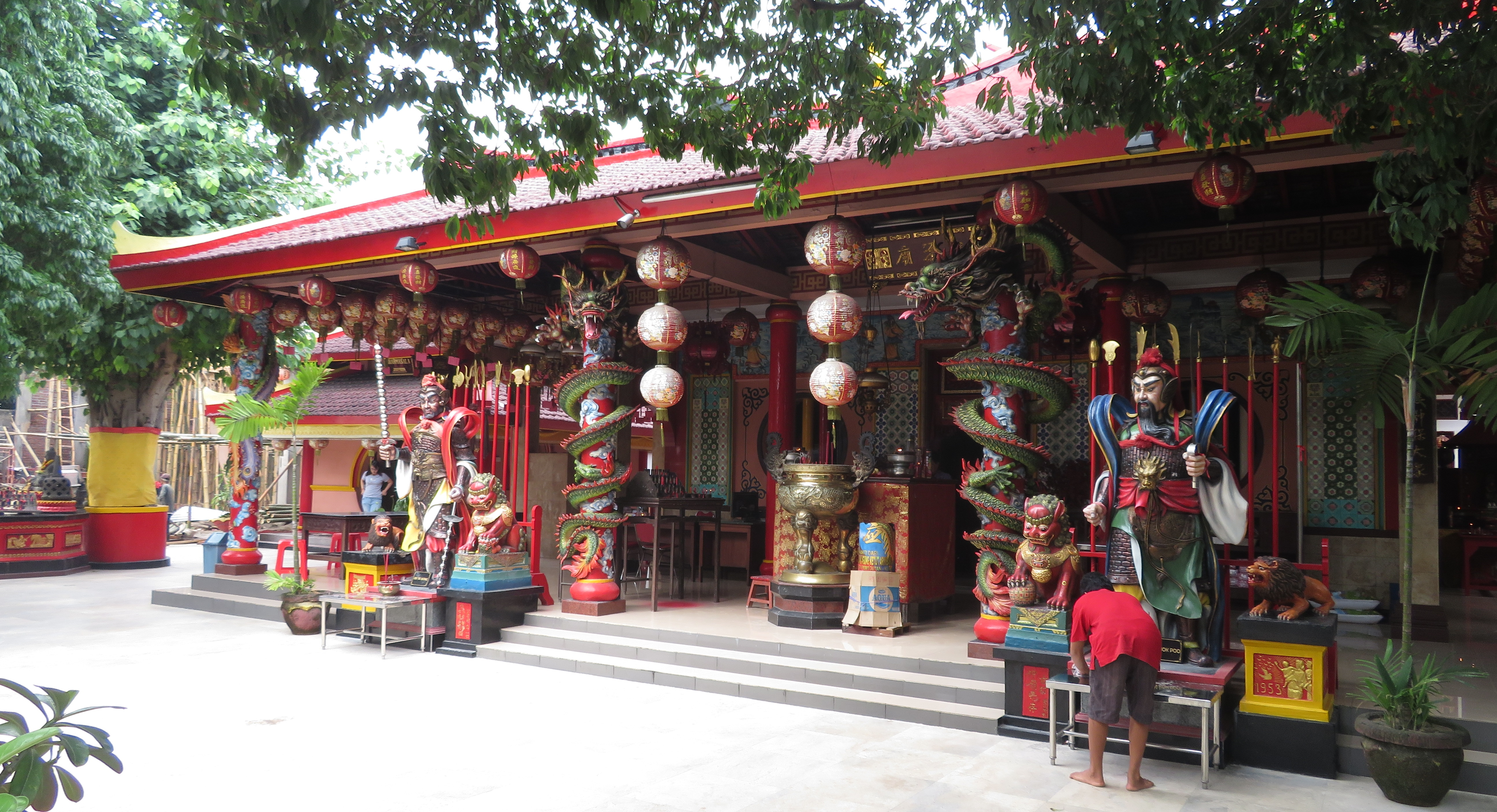 Buddhist Temple Viharaya Dharmayana, Kuta, Bali, Indonesia